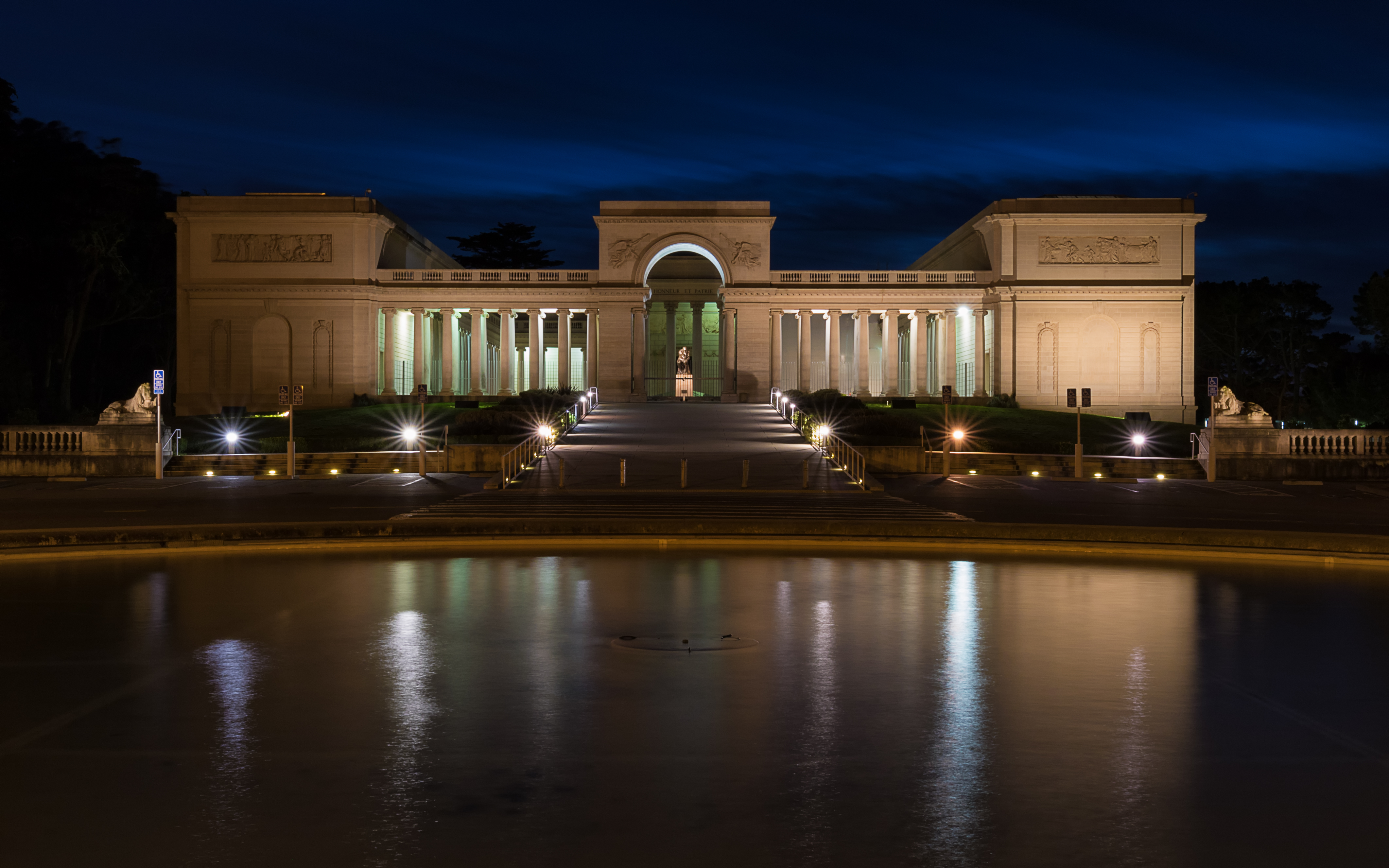 Legion of Honor, one of San Francisco’s fine arts museums, at night in January 2017. The building is a full-scale replica of the French Pavilion at the 1915 Panama-Pacific International Exposition, which in turn was a three-quarter-scale version of the Palais de la Légion d’Honneur in Paris, by Pierre Rousseau (1782).